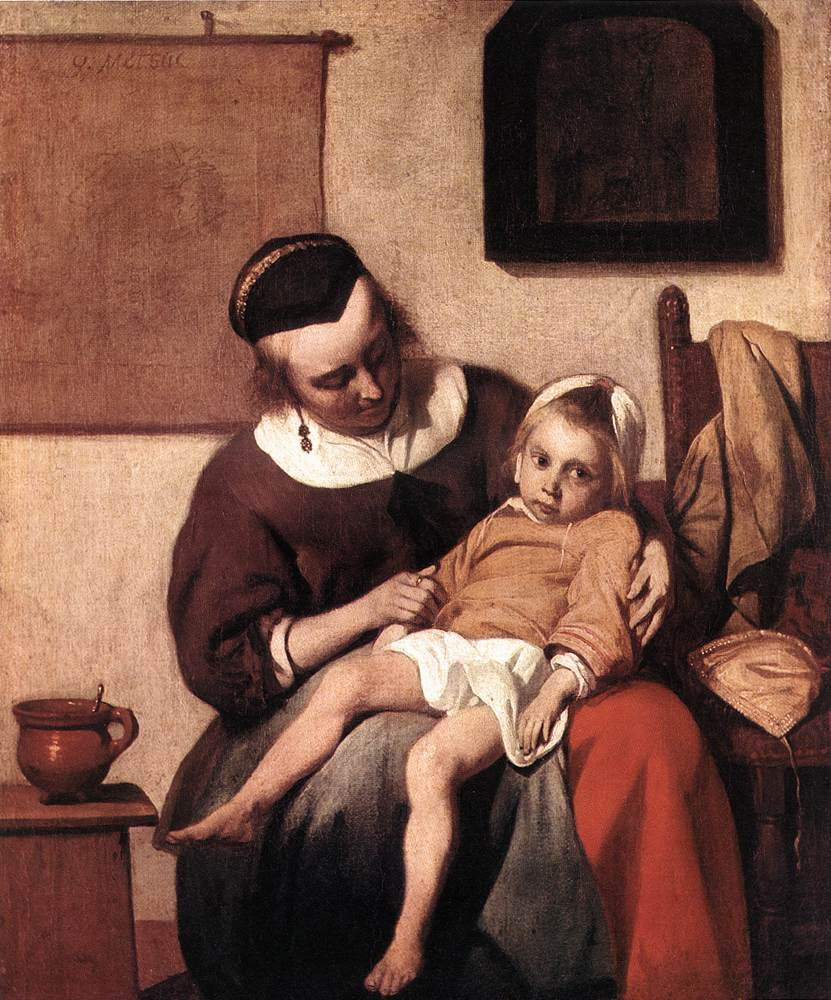 The pale, sick child hangs limply in the woman's lap. Beside them on the cupboard stands a stoneware bowl with spoon. On the wall behind hang a maps which has been rolled open, and a framed print showing the Crucifixion of Christ.